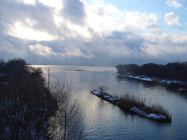 River Anegawa in Shiga Prefecture in Japan. 姉川河口とja:琵琶湖 滋賀県東浅井郡ja:びわ町の姉川大橋から 2006年2月 Bakkai撮影 Category:琵琶湖の画像 Category:日本の河川画像 Category:長浜市の画像